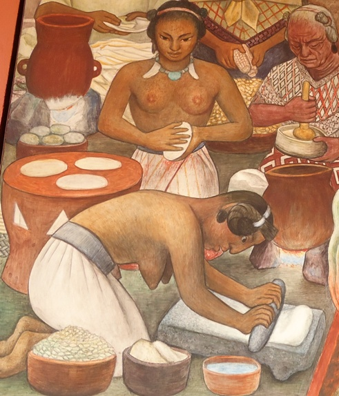 Aztecs in flat grill. Diego Rivera mural.